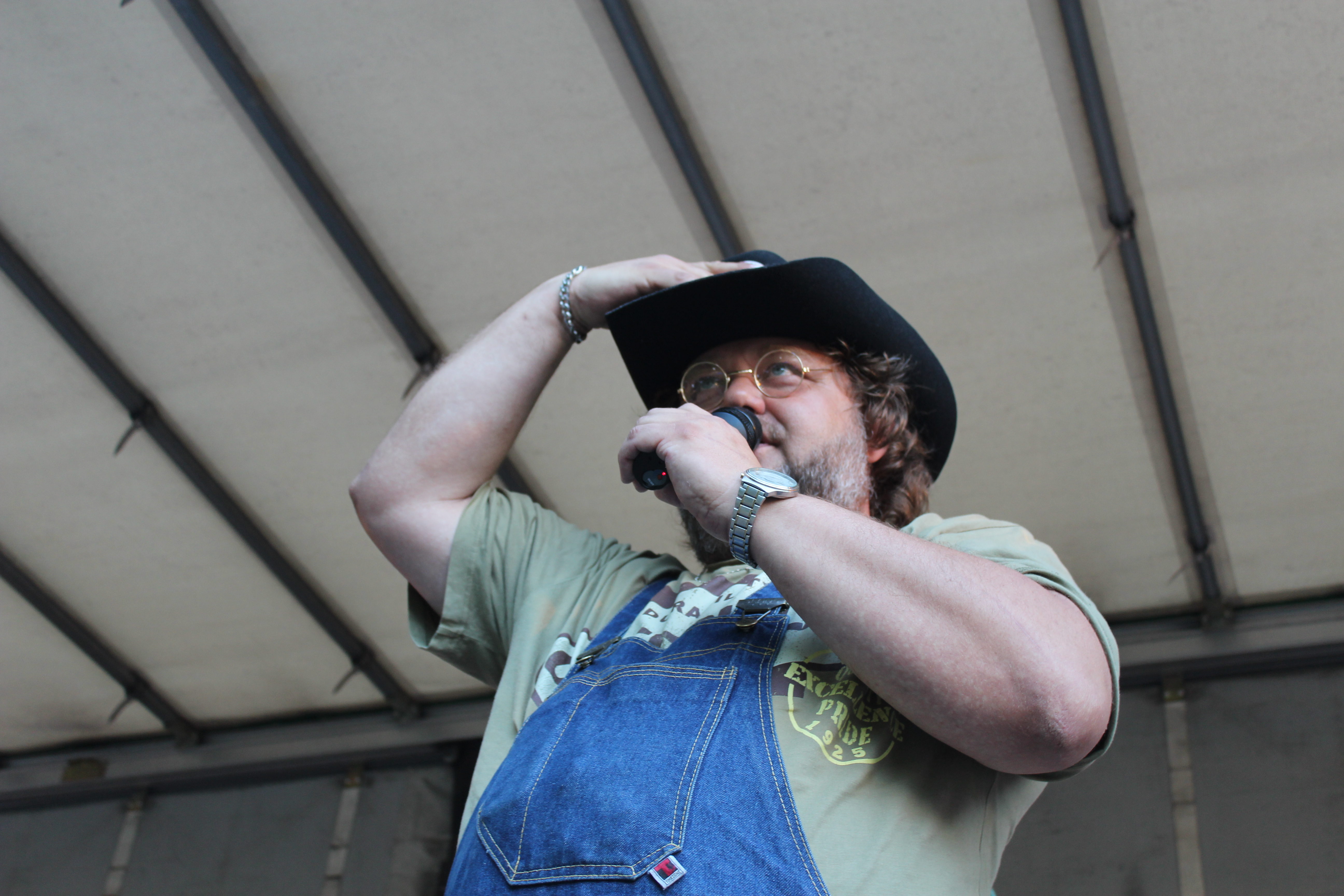 Liteňfest - Folk & Country Festival in Liteň (District Beroun)